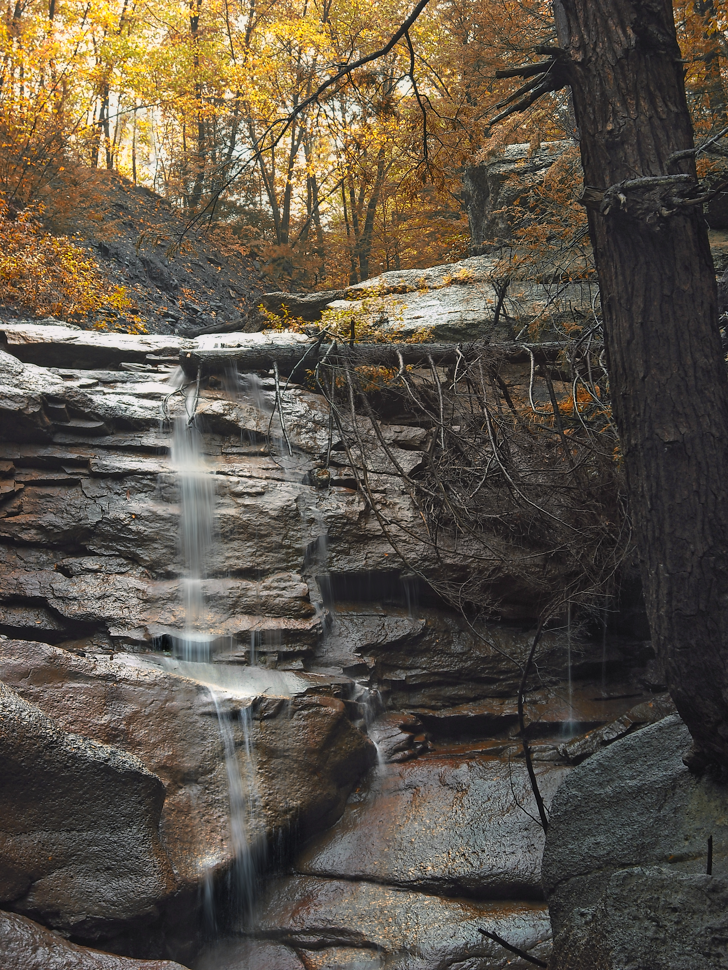 Swatara Falls, Schuylkill County. The surrounding land, heavily forested with oaks and hemlocks, was once mined for coal. Contamination from abandoned mines reddens the creek rocks.